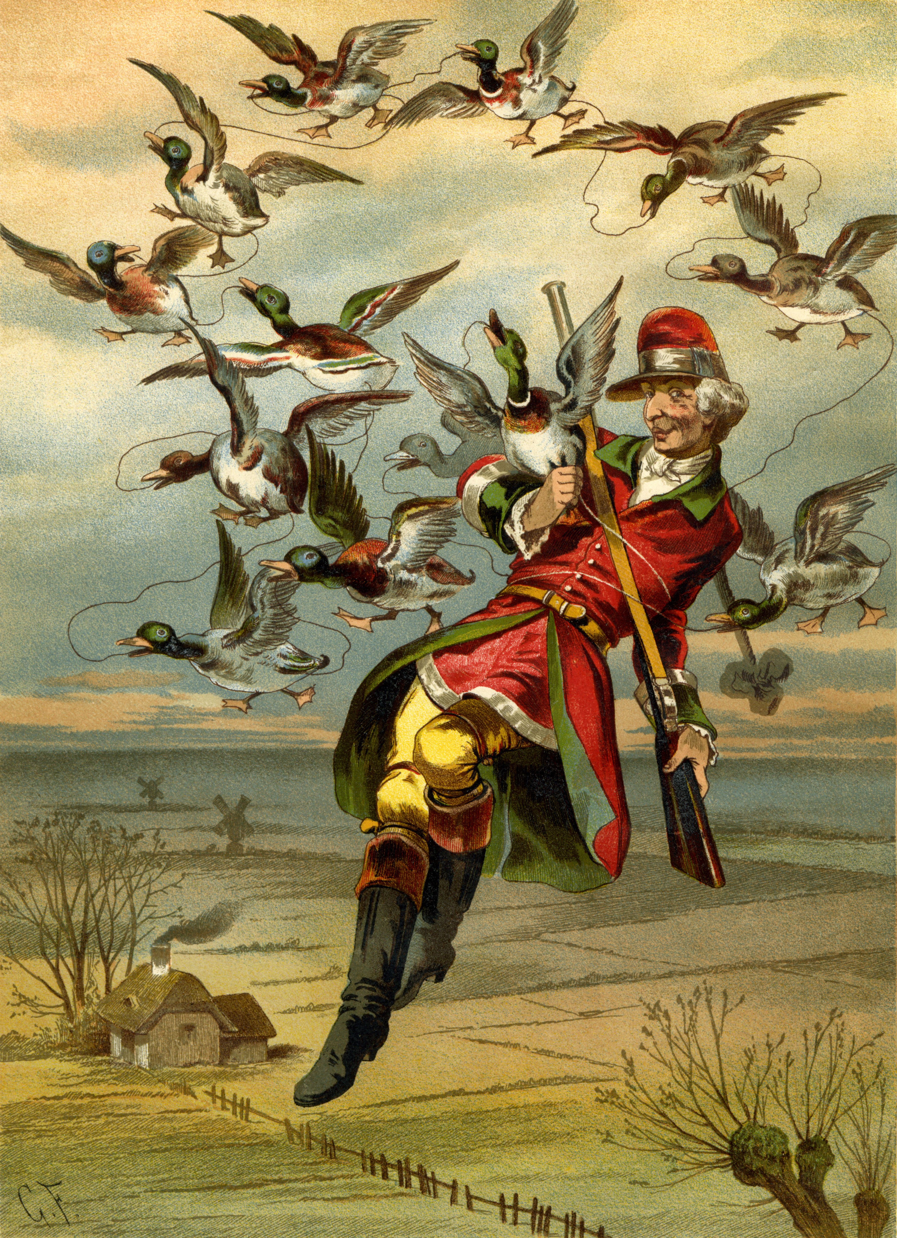 Pic. 2. Baron Münchhausen flying with ducks